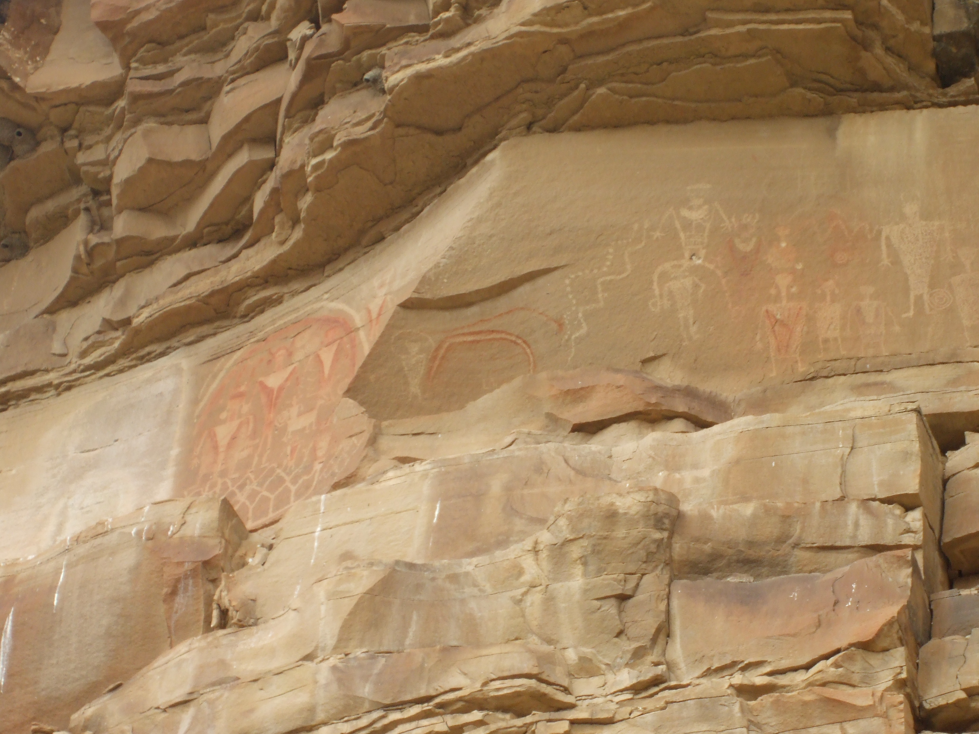 The most prominent panel of the Ferron Box Pictographs and Petroglyphs, a rock art site located near Ferron, Utah, United States.